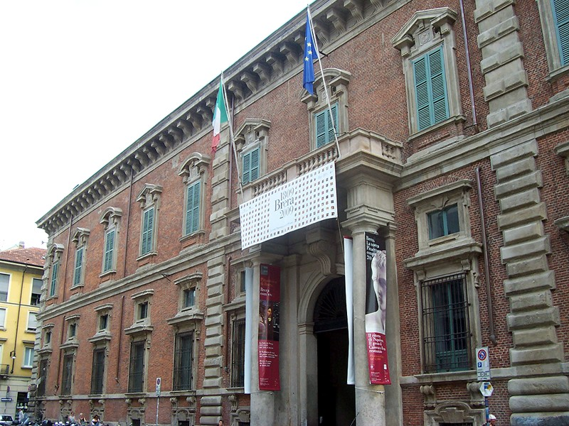 The Palazzo di Brera, which houses the Pinacoteca di Brera.